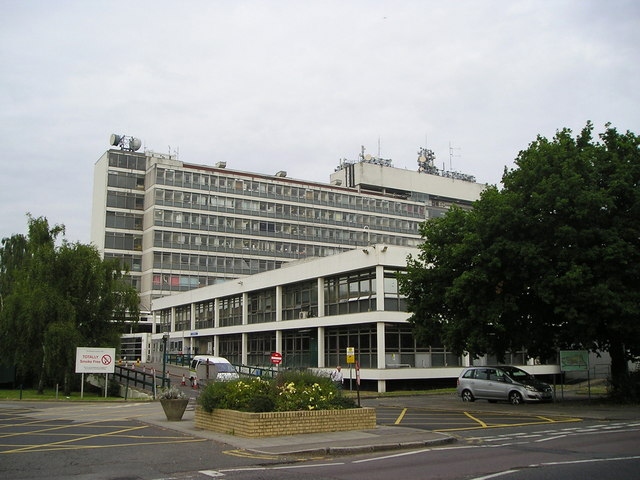 Hillingdon Hospital View of the hospital taken from Pield Heath Road. There is an impressive array of telecommunication equipment on the roof. I fancy the hospital is the tallest building in the area and generates some income from these.